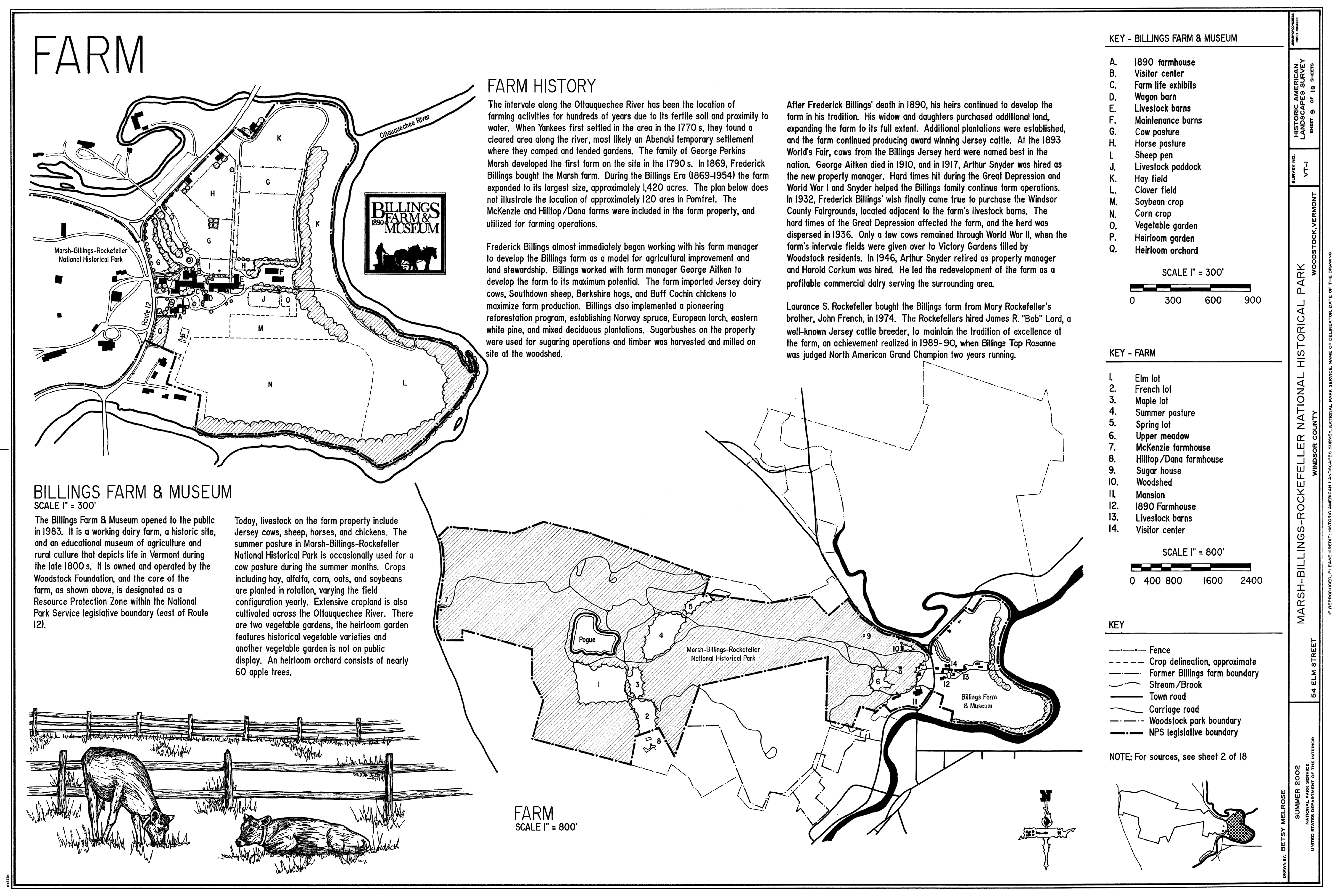 Marsh, George Perkins; Billings, Frederick; Rockefeller, Mary French; Rockefeller, Laurence S; Dolinsky, Paul D, project manager; Price, Virginia Barrett, transmitter; Boucher, Jack E, photographer; Mason, Anne, transmitter; Dilworth, Douglas, landscape architect; Furmanik, Barbara, landscape architect; Hall, Emma, landscape architect; Melrose, Betsy, landscape architect; Williams, Norma, landscape architect